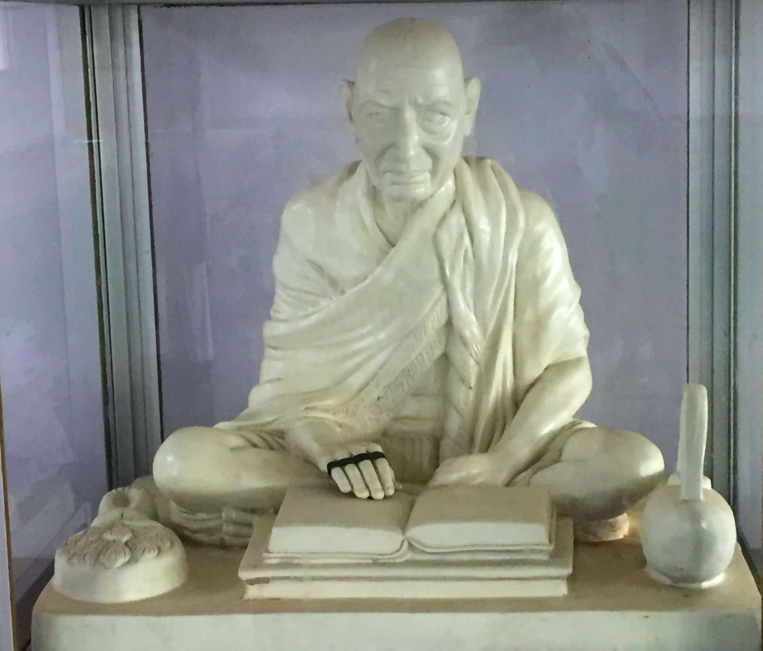 Statue of Varniji at Nainagiri